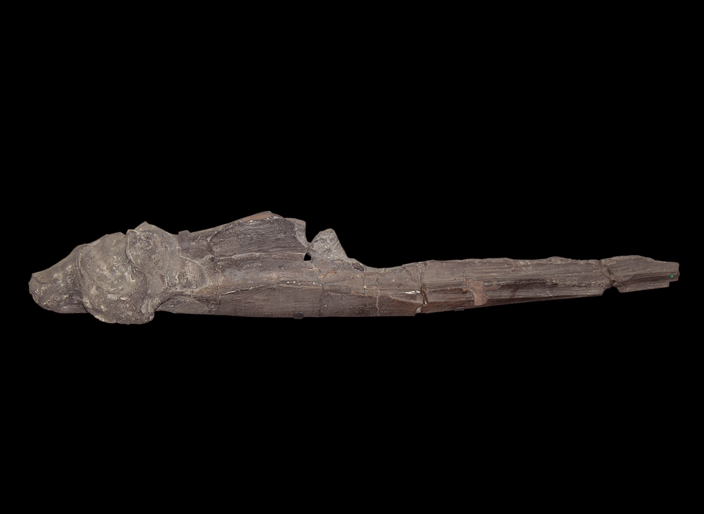 Fossil in the Oxford University natural history museum